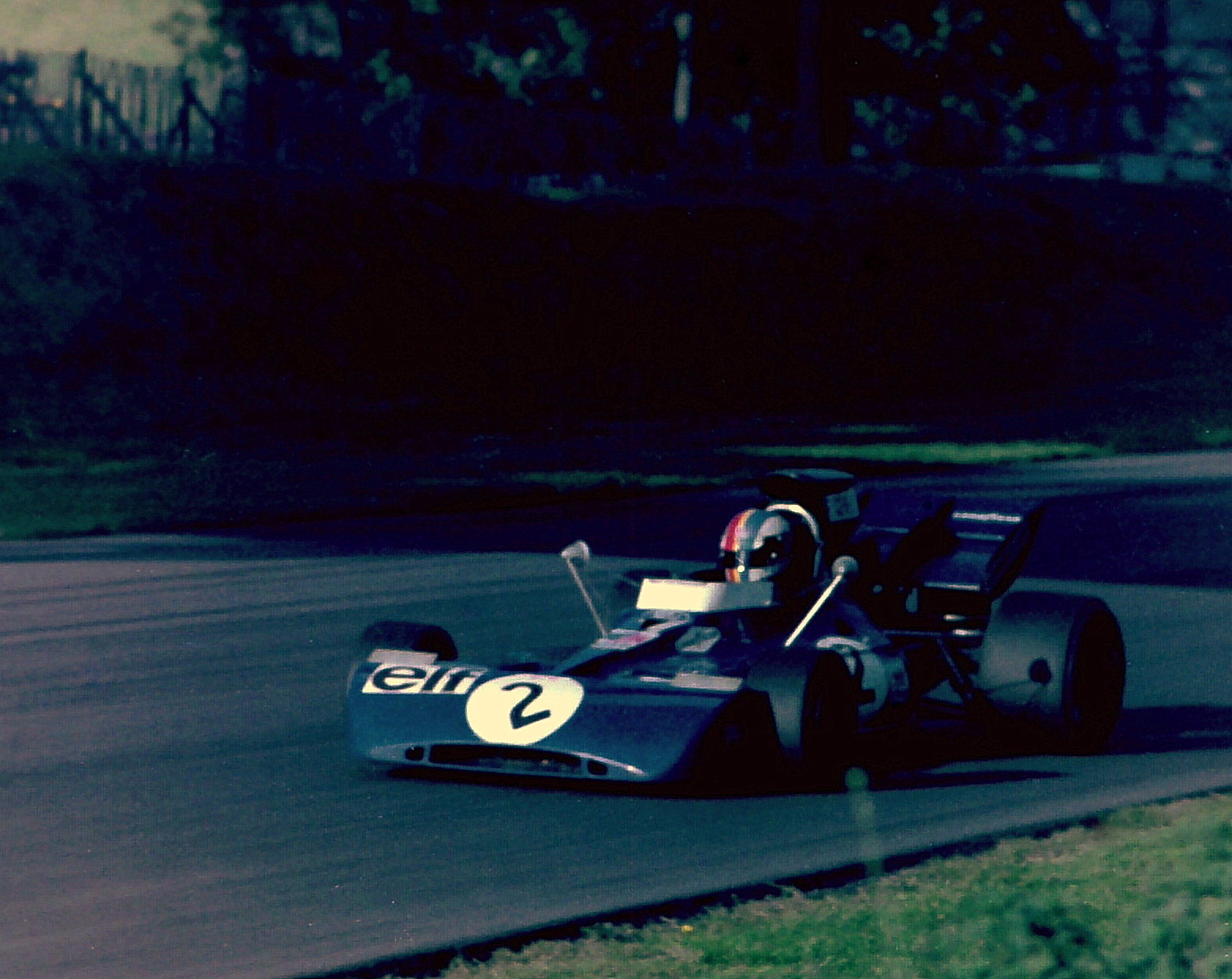 François Cevert at the 1971 Rothmans World Championship Victory Race at Brands Hatch